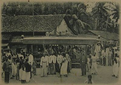 Colombo tram car on an old post card by A. W. Andree, Ceylon, approx 1910